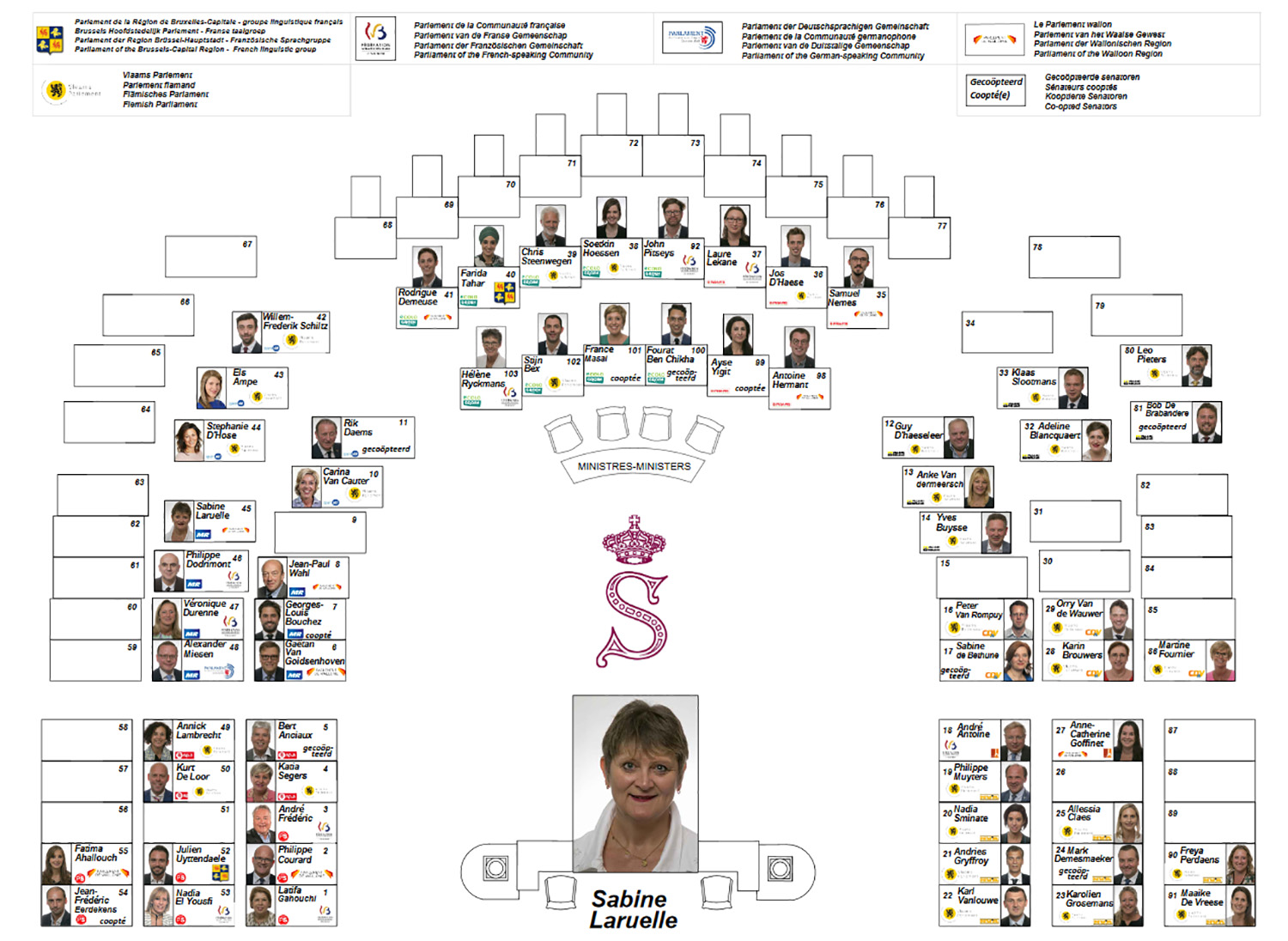 Senate of Belgium - composition 2019-2020